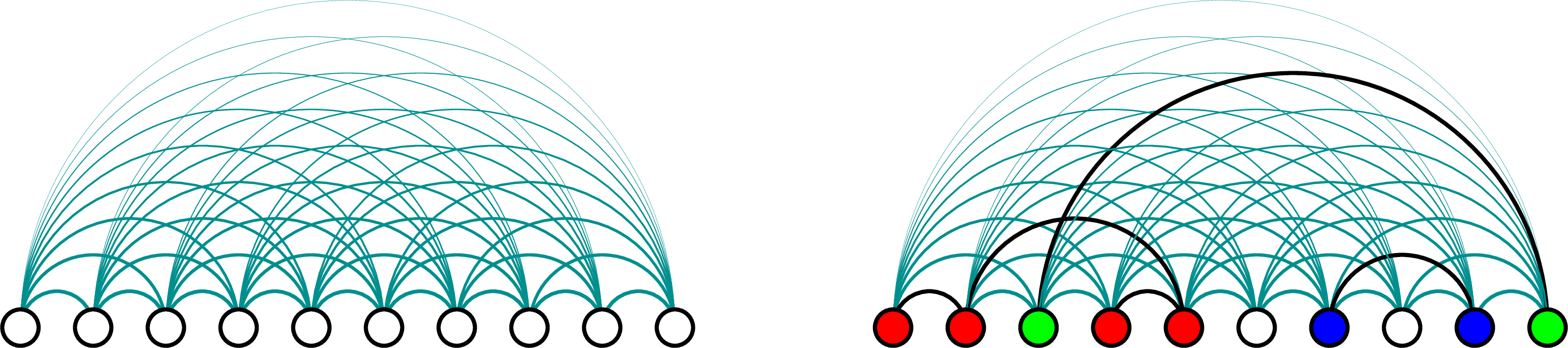 Clusters for 1d long-range percolation